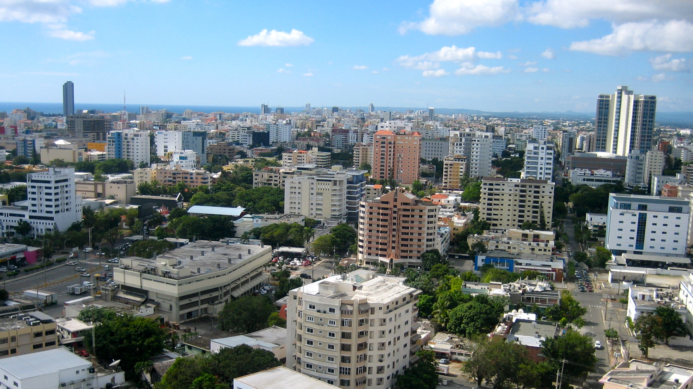 SantoDomingo2